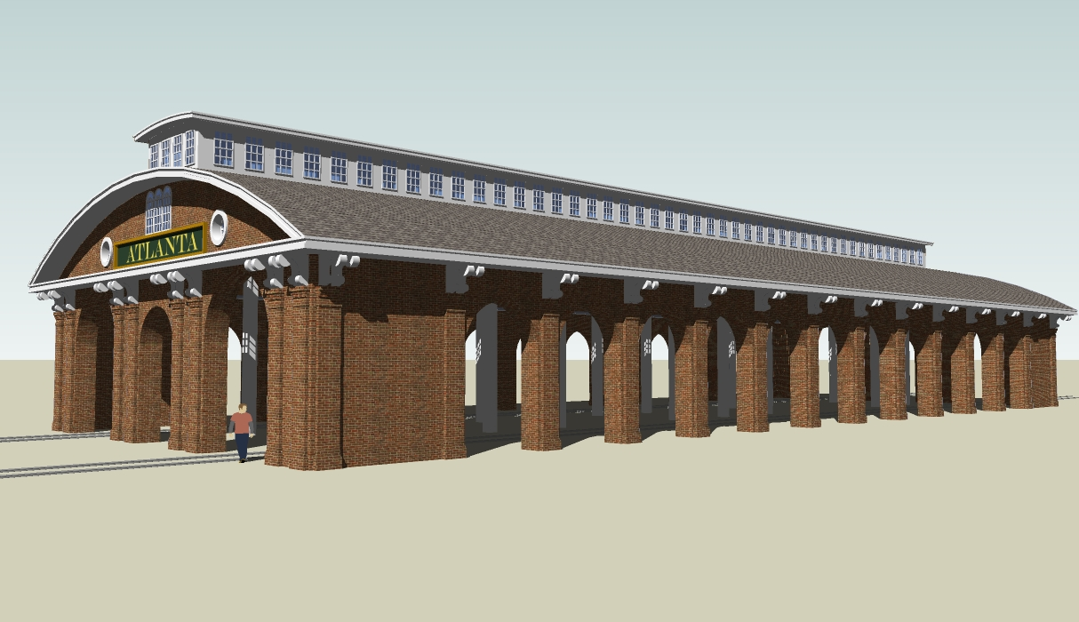 2D image, exported from a 3D model, of a variant of a movie set exterior that once existed, until 1976, on the now demolished RKO Studios "Forty Acres" backlot in Culver City, California. The model depicts the Atlanta railroad depot as it appeared in the 1939 cinema classic Gone with the Wind. The set as constructed was a slightly downsized version (as is the 3D model) of the actual depot, and it was featured prominently in scenes that dramatized events leading to the fall of Atlanta in that film. The backlot movie set was an incomplete structure, with roofing only on the side which was filmed, and with a painted facade simulating the windowed structure along the roofline.